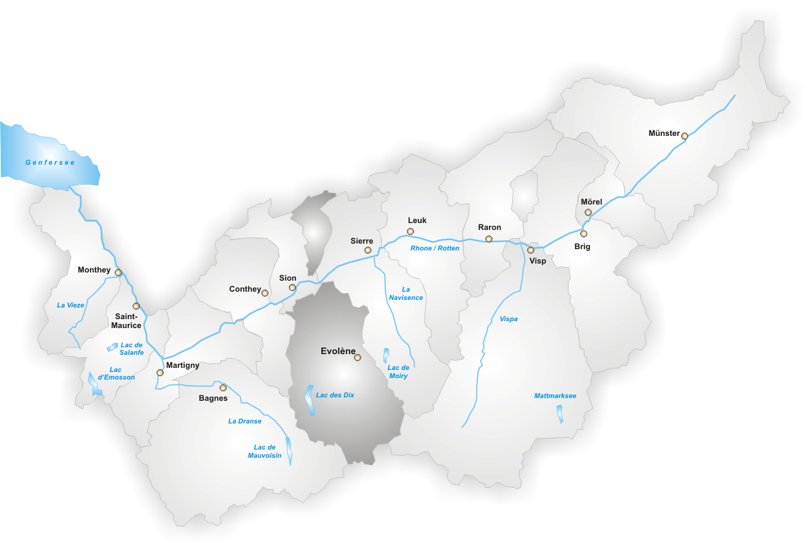 District Hérens